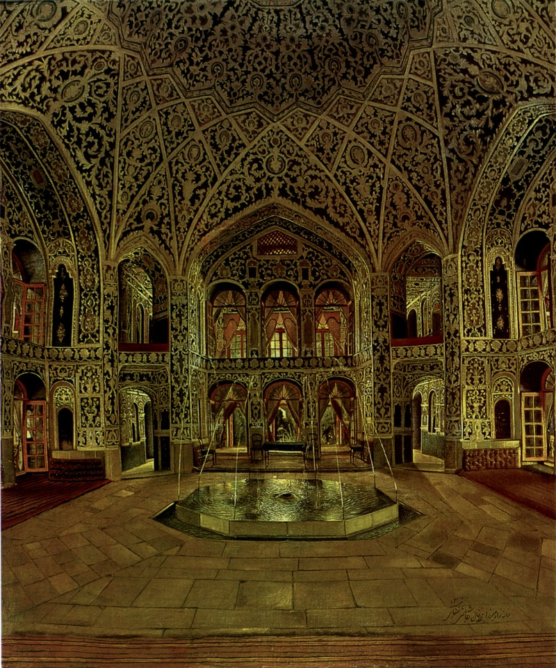 Saltanatabad